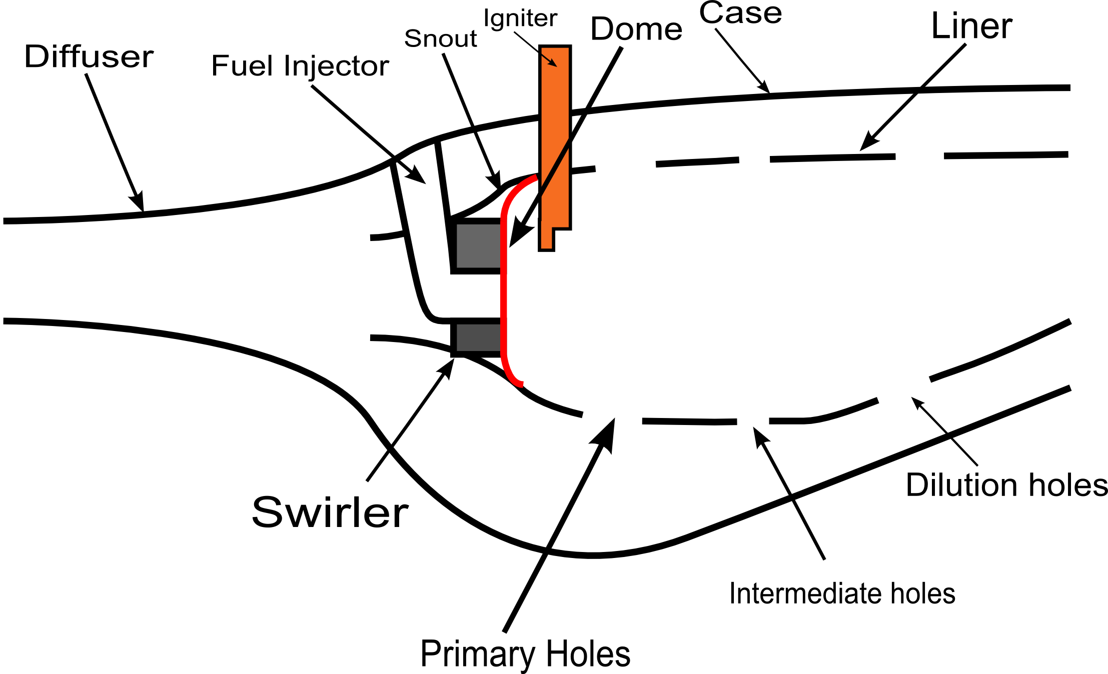 A diagram of a gas turbine combustor, with the major components labeled